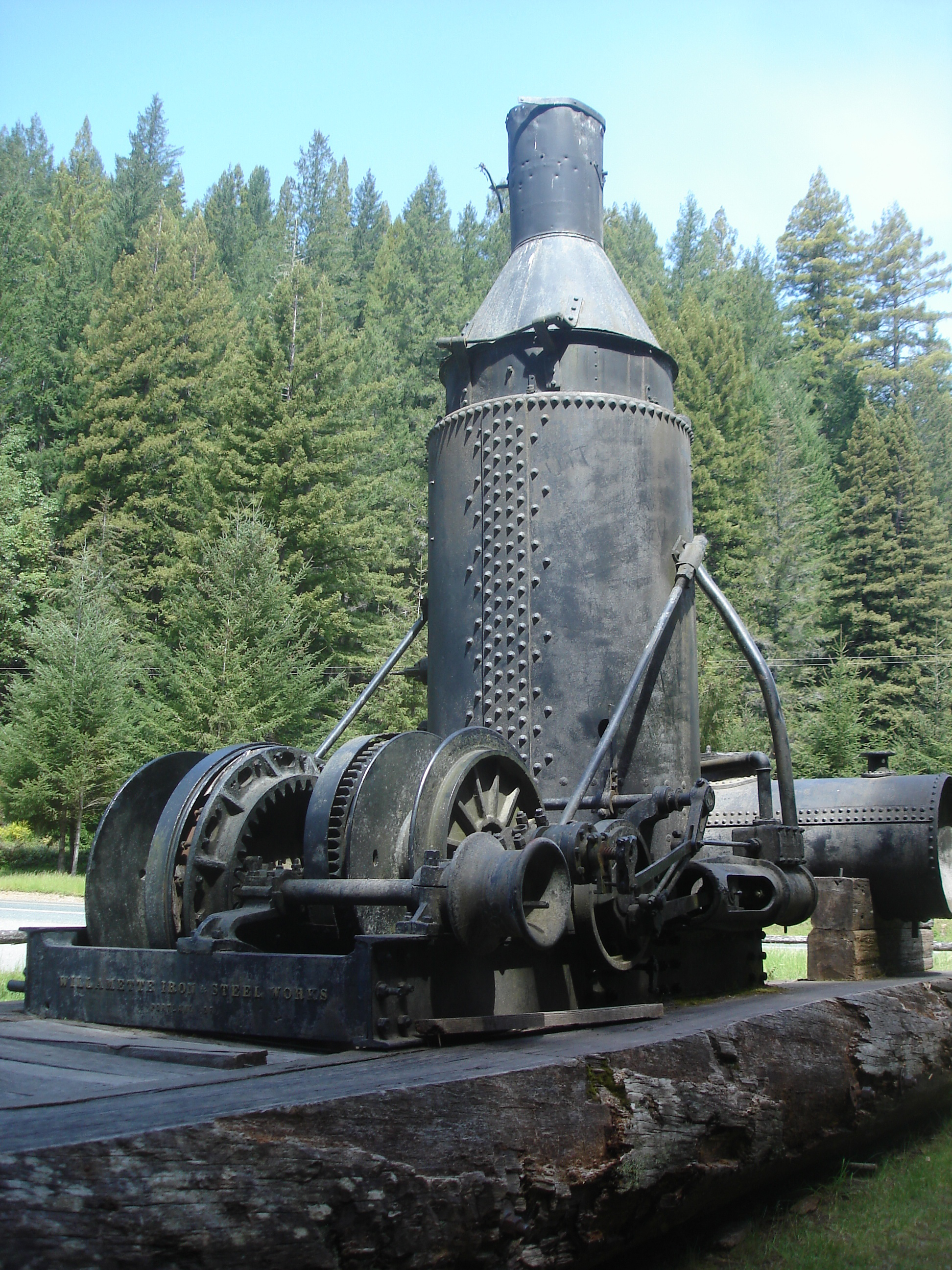 Caspar Lumber Company Willamette Steam Donkey on display at Camp 20 adjacent to California highway 20 in Mendocino County